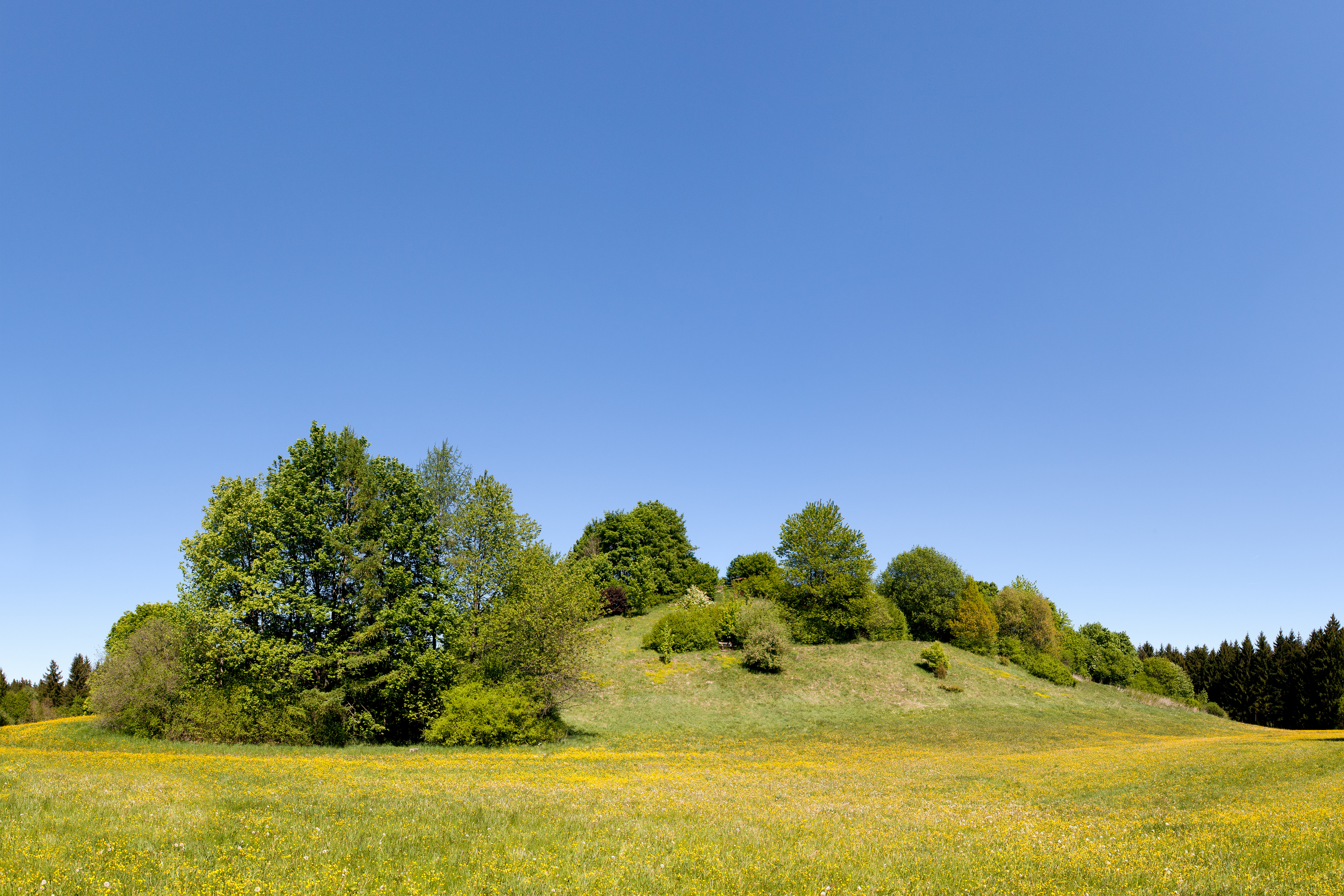 Perlacher Mugl, Perlacher Forst, Munich, Germany